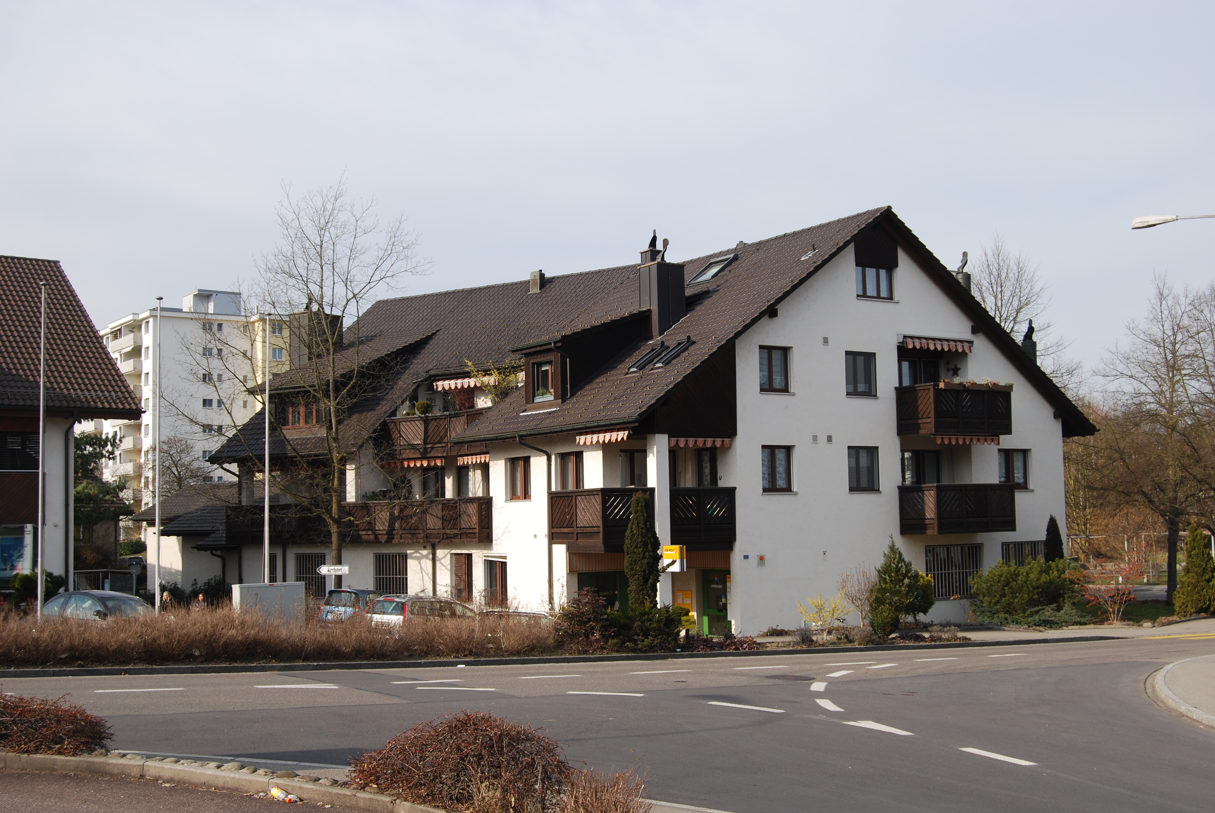 Postoffice Niederglatt, canton of Zürich, Switzerland